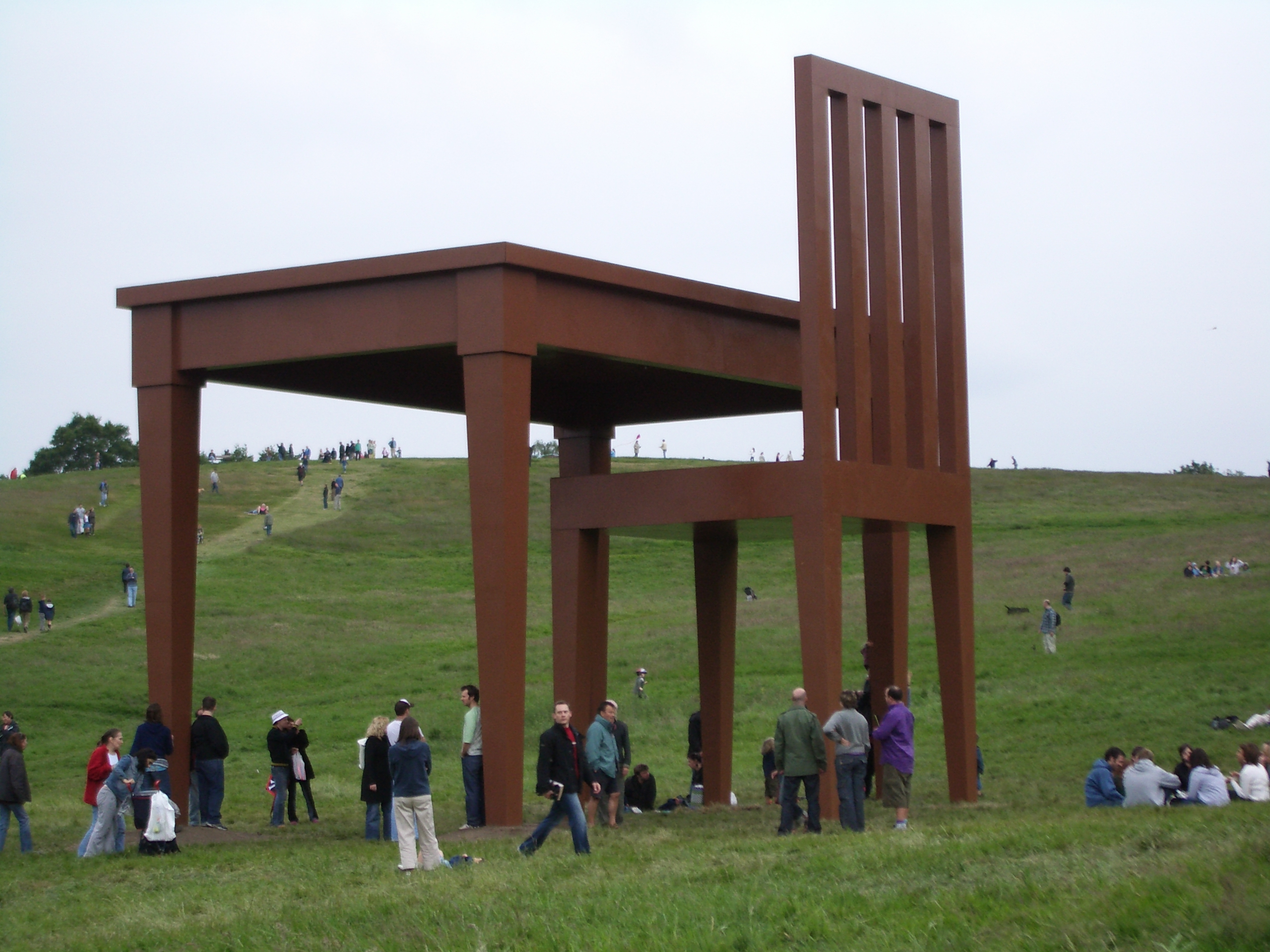 Giancarlo Neri sculpture of table and chair, Hampstead Heath.